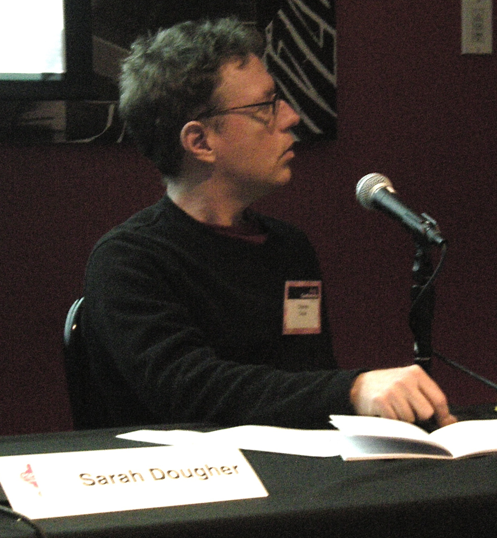 Charles R. Cross moderating the panel "Sexual Healing?" at the 2009 Pop Conference, Experience Music Project, Seattle, Washington.